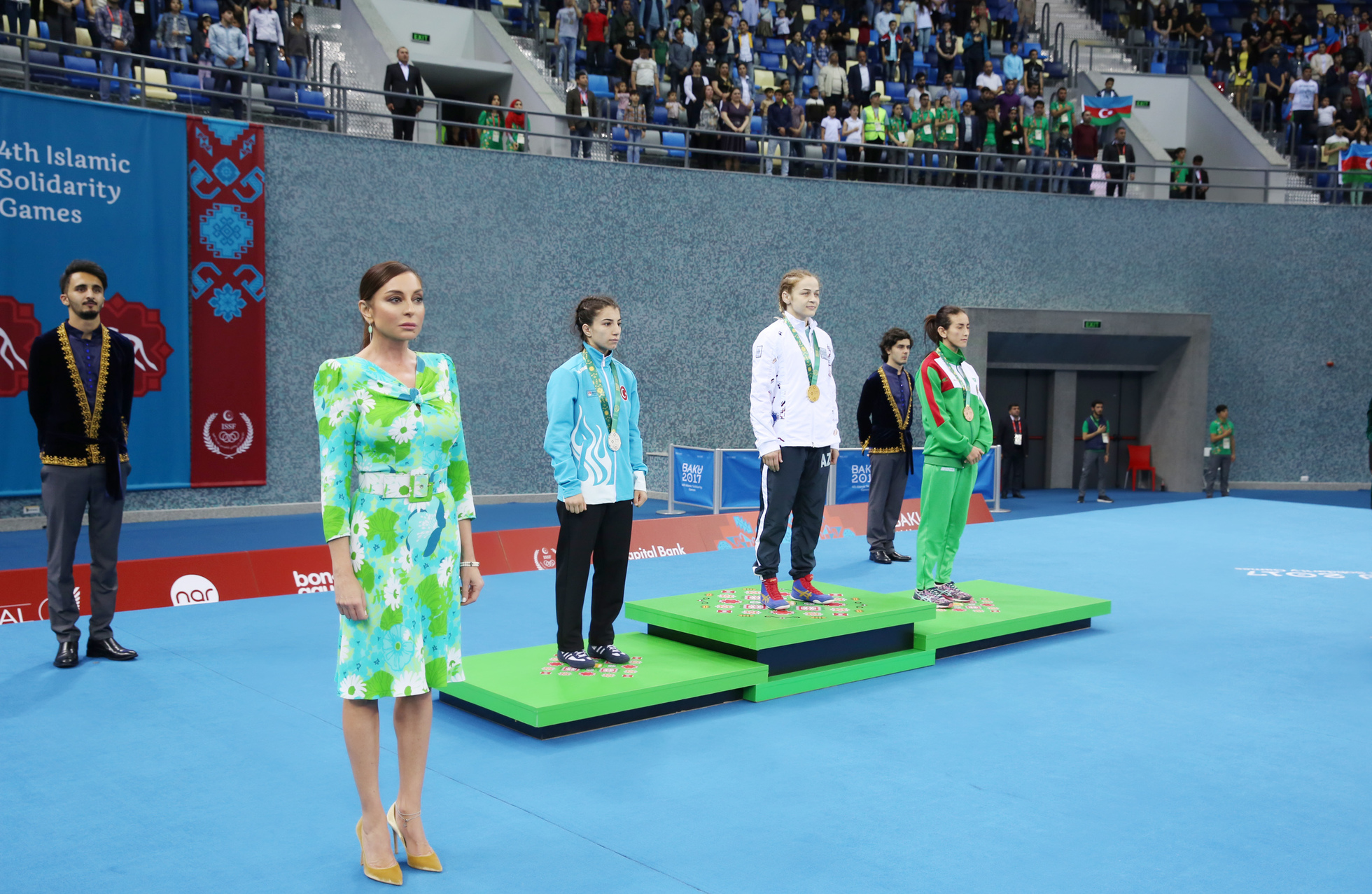 First Vice-President Mehriban Aliyeva presented medals to Azerbaijani champions in IV Islamic Solidarity Games